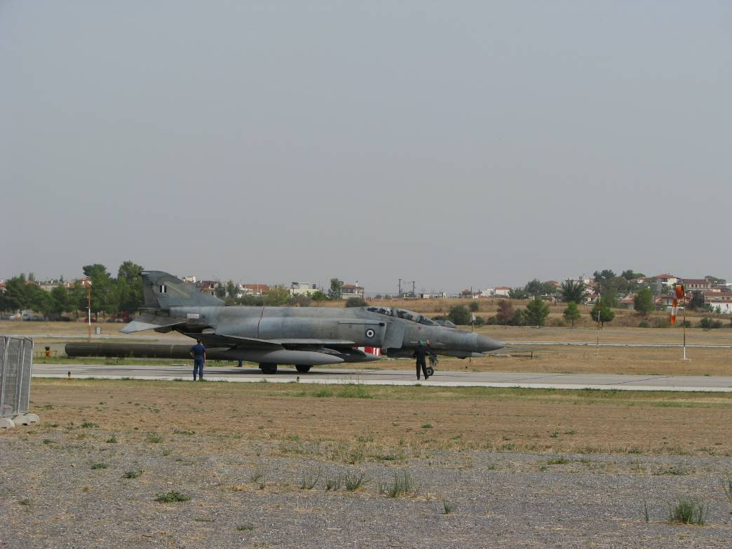 A Hellenic Air Force F-4E Phantom II performing a leak check before take off during the 2008 HAF air show, in Tanagra airbase, Greece